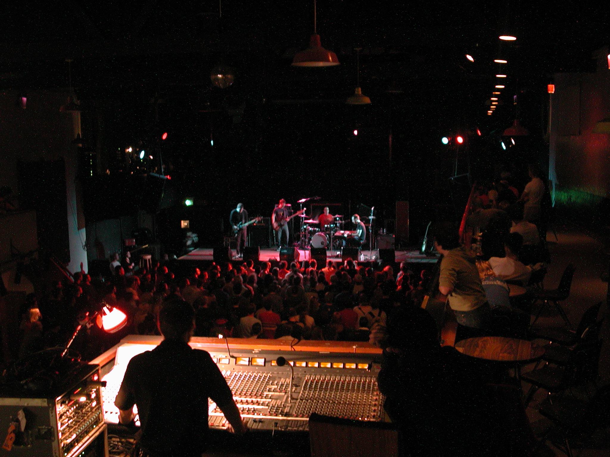 Indie rock group Jets to Brazil performing at The Catalyst in Santa Cruz, on April 29, 2001